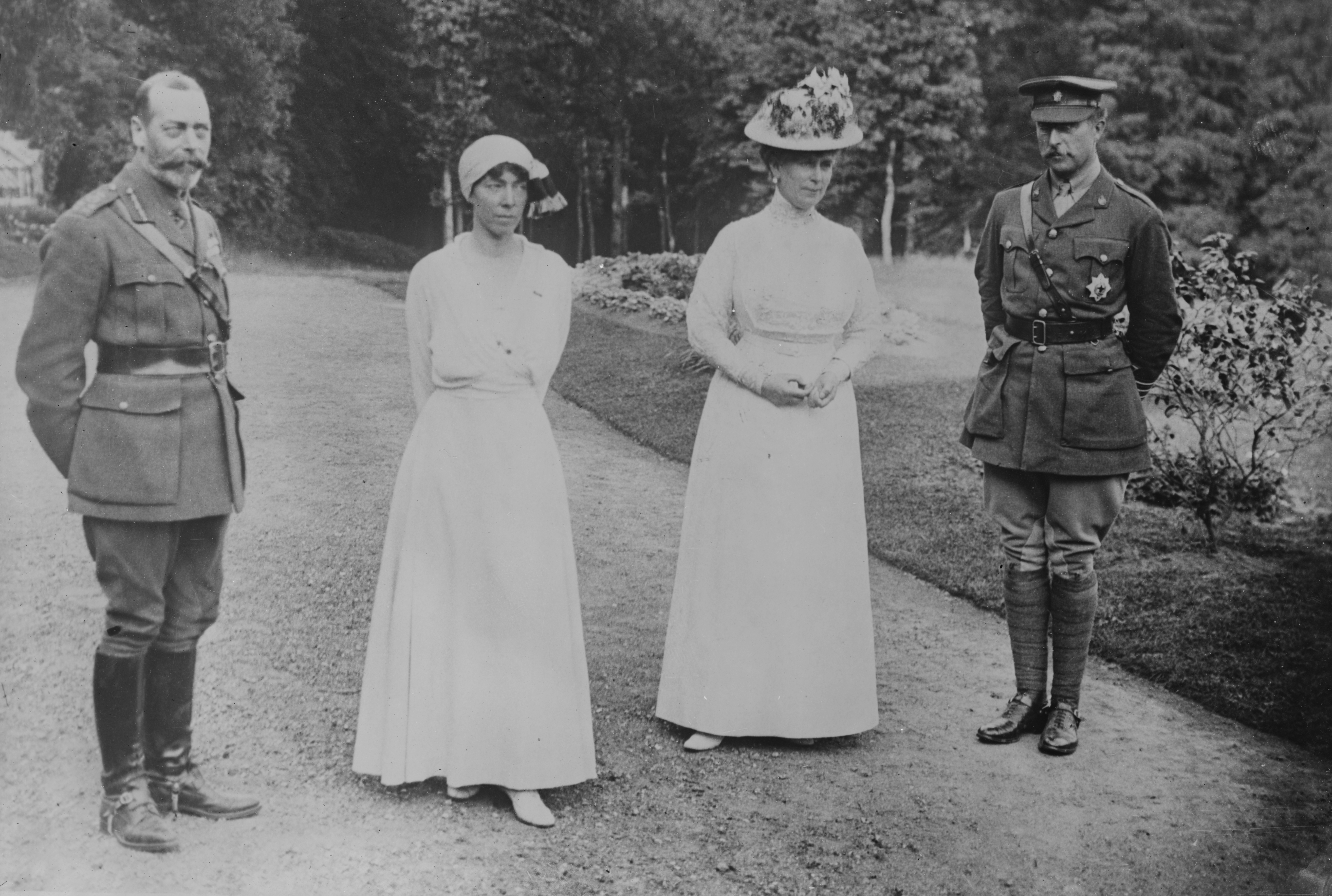 Bain News Service,, publisher. King Geo., Queen of Belg., Queen Mary, King Albert [between ca. 1915 and ca. 1920] 1 negative : glass ; 5 x 7 in. or smaller. Notes: Title from unverified data provided by the Bain News Service on the negatives or caption cards. Forms part of: George Grantham Bain Collection (Library of Congress). Format: Glass negatives. Repository: Library of Congress, Prints and Photographs Division, Washington, D.C. 20540 USA, General information about the Bain Collection is available at Call Number: LC-B2- 4302-2